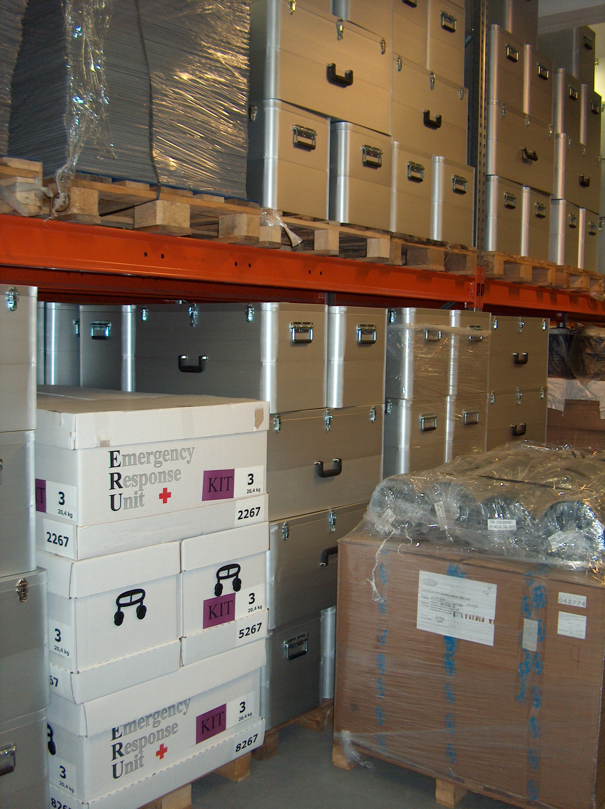 From the Logistics Centre of the Finnish Red Cross in Kalkku, Tampere, Finland.